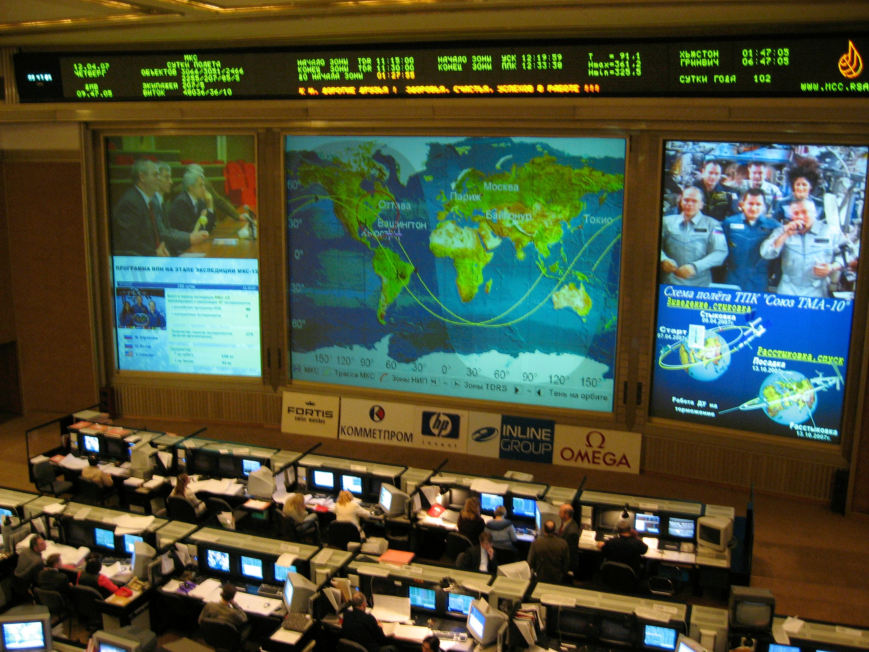 An overall view looking forward from the rear of the Russian Mission Control Center in Korolev, outside Moscow on April 12, 2007 as Russian space officials called up to the Expedition 14 and 15 crews and U.S. spaceflight participant Charles Simonyi aboard the International Space Station. The officials offered congratulations on the Cosmonautics Day in celebration of the 46th anniversary of the launching of Yuri Gagarin as the first human in space. The ground team also offered congratulations to Expedition 14 commander Michael A. Lopez-Alegria and Expedition 15 flight engineer Sunita L. Williams on the 26th anniversary of the launching of Columbia on the first Space Shuttle mission.